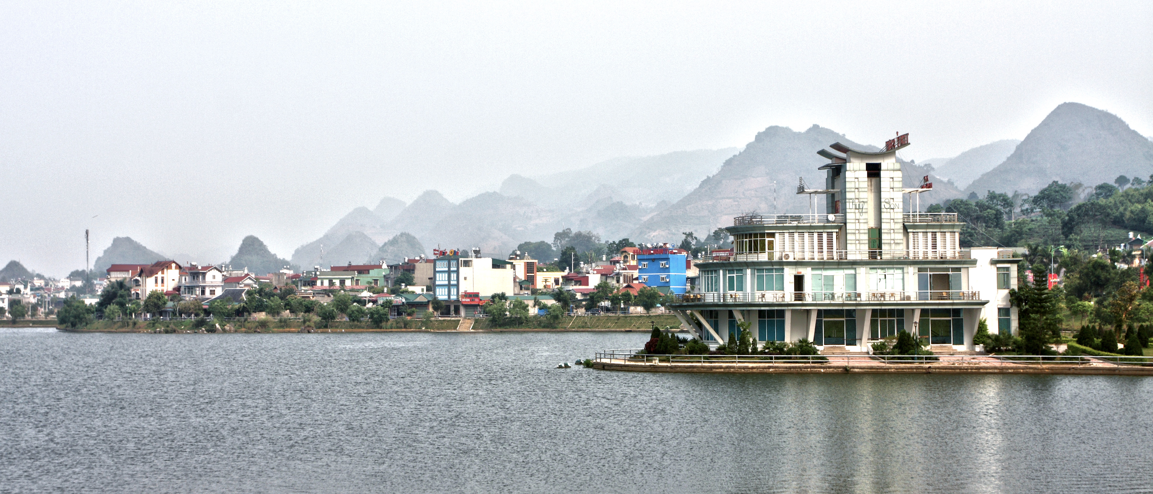 An man-made lake in the city area